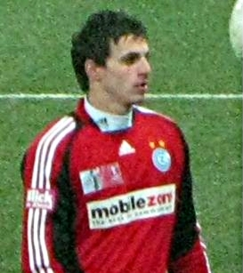 Swiss Goalkeeper Eldin Jakupović, Grasshoppers Club